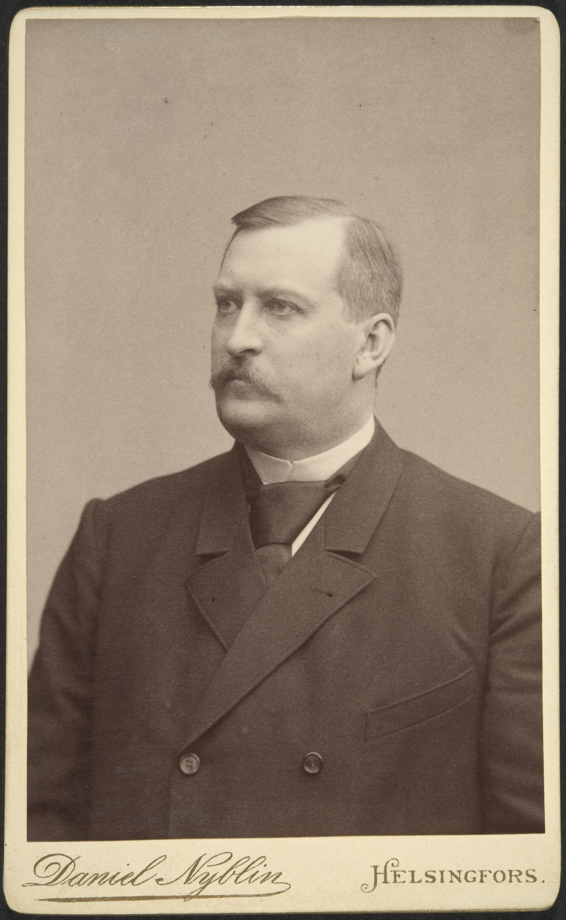 Photograph of the Finnish industrialist Ernst Dahlström (1846–1924).